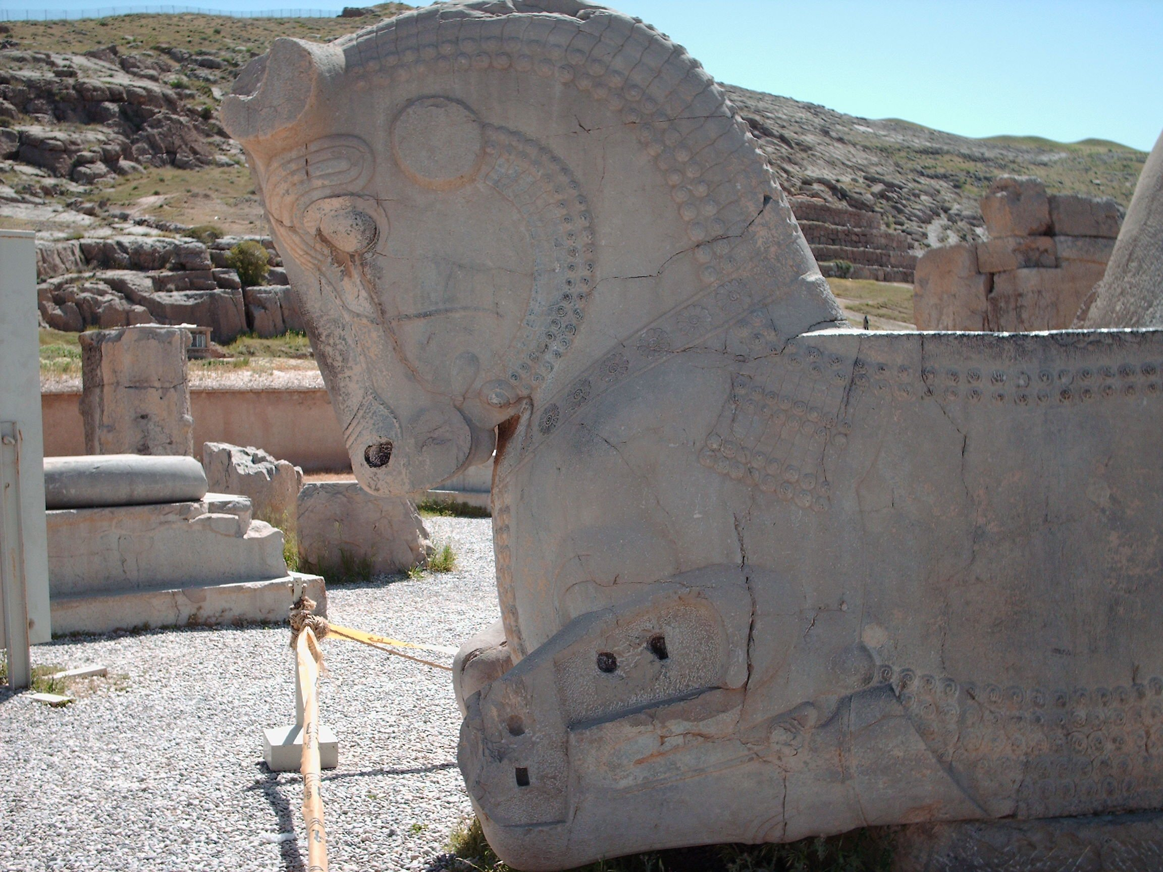 Top column bull Apadana Picture taken by myself in Persepolis Iran April 2006